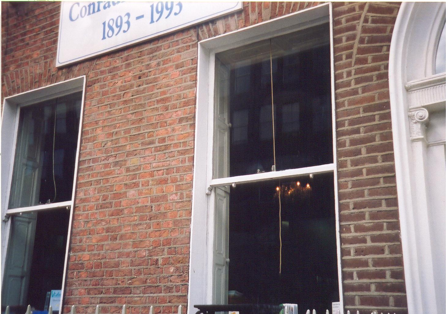 Gaelic League, Dublin